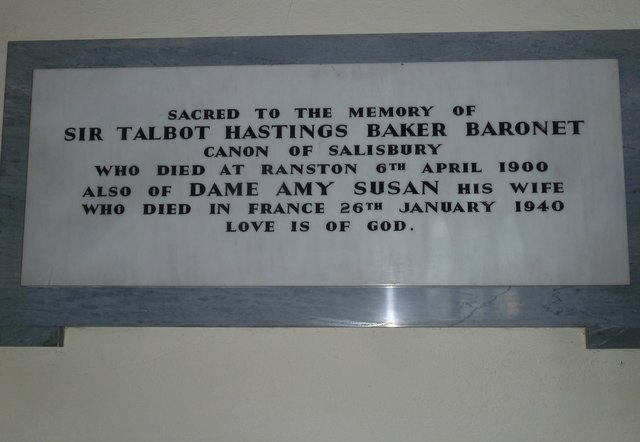 St Mary, Iwerne Courtney: memorial (VIII)